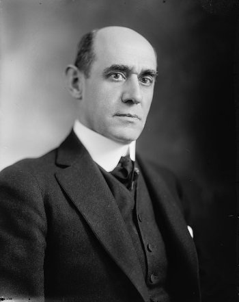 Samuel Jordan Graham (US federal judge)